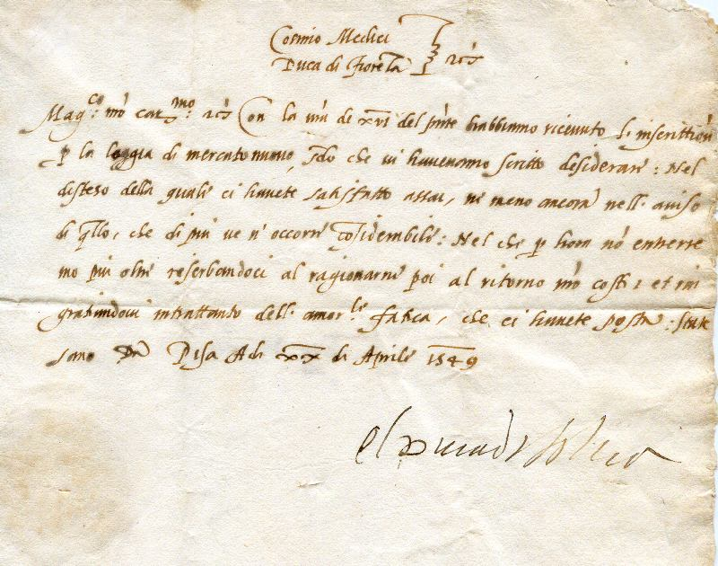 Letter from Cosimo I de’ Medici, Grand Duke of Tuscany, to the Humanist Piero Vettori (1499–1585). According to the date at the end, written “xx di Aprile 1549”. While the letter was obviously written by some professional writer (as usual in that time), the signature at the end seems authentic.